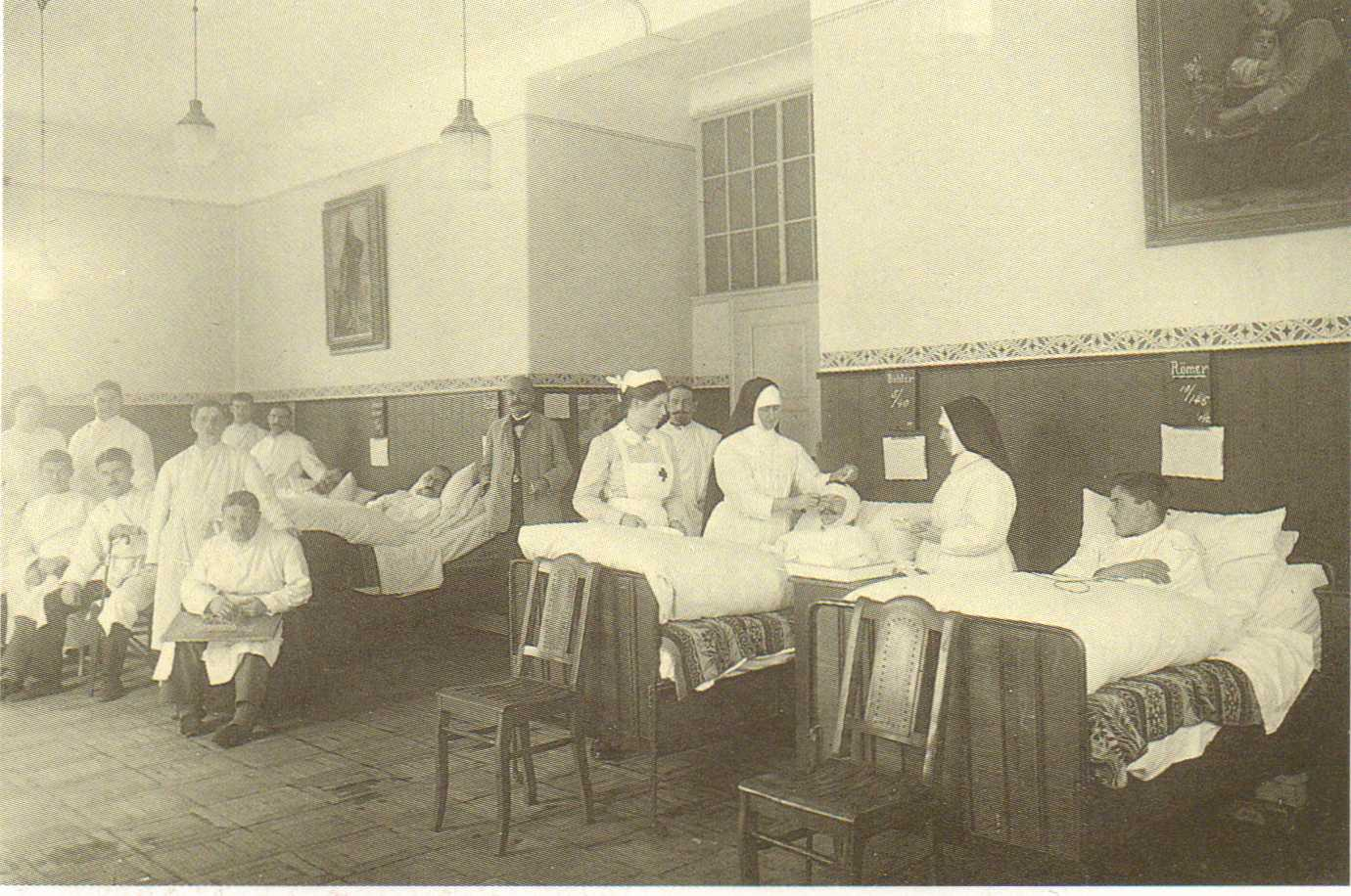 Treatment of patients in the Landesbad Baden 1915